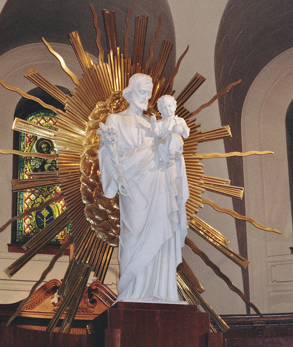 Picture of the statue of Saint Joseph in the crypt of Saint Joseph's Oratory in Montreal, Canada.